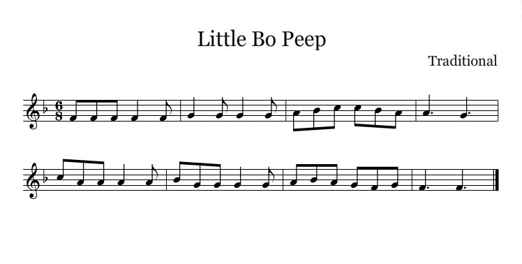 The main melody of "Little Bo Peep"